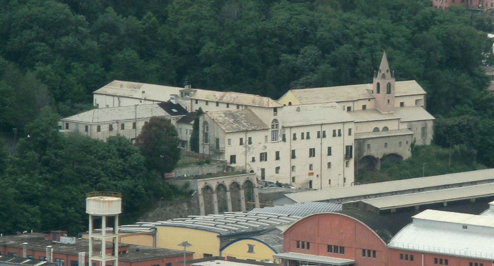 Genoa (Italy), Abbey of San Nicolò of Boschetto